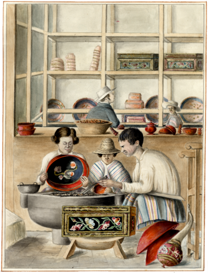 Artisans Practicing the Decorative Technique of "Barniz de Pasto," Pasto Province